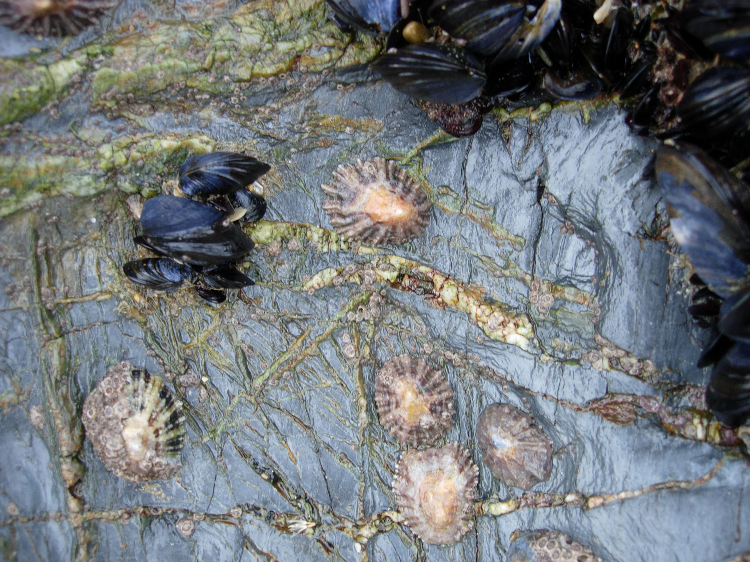 Limpets in the intertidal near Newquay, Cornwall, England.